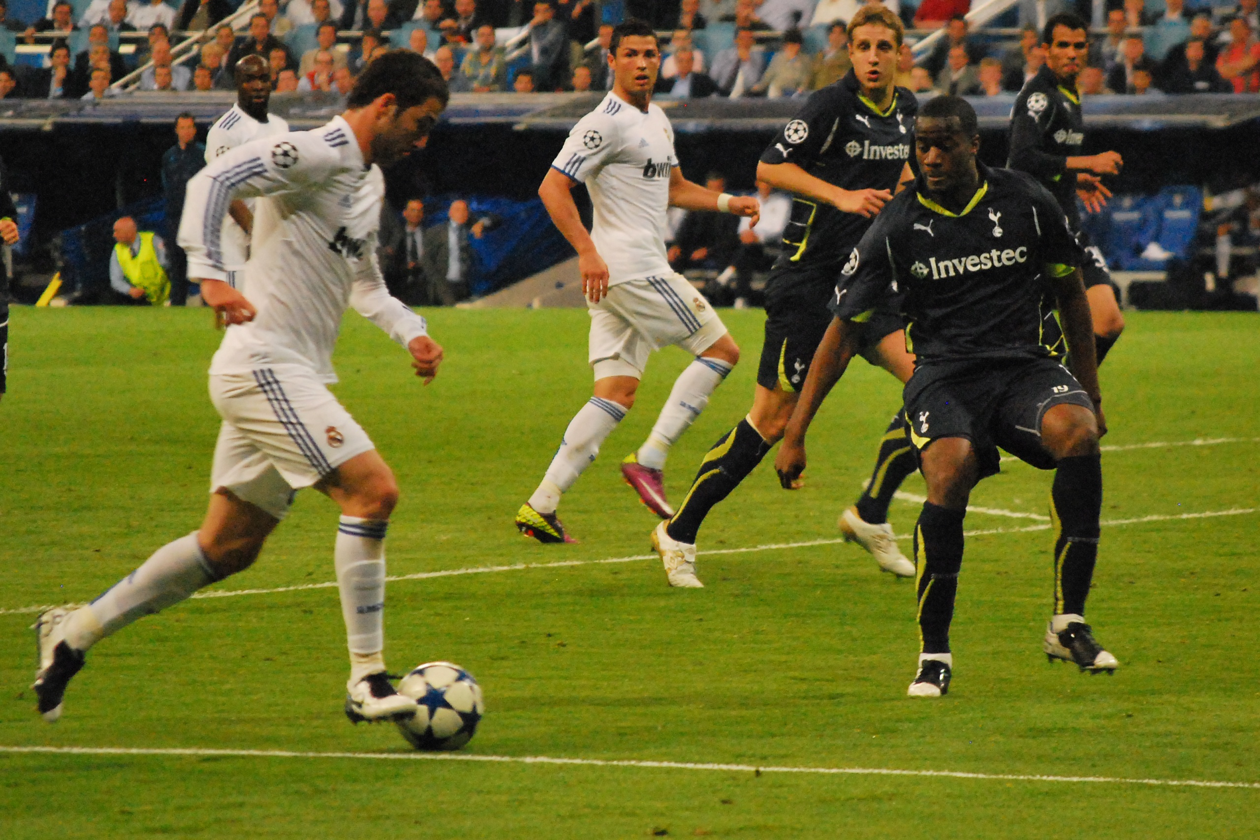 Gonzalo Higuaín of Real Madrid dribbles the ball against Sébastien Bassong of Tottenham Hotspur.